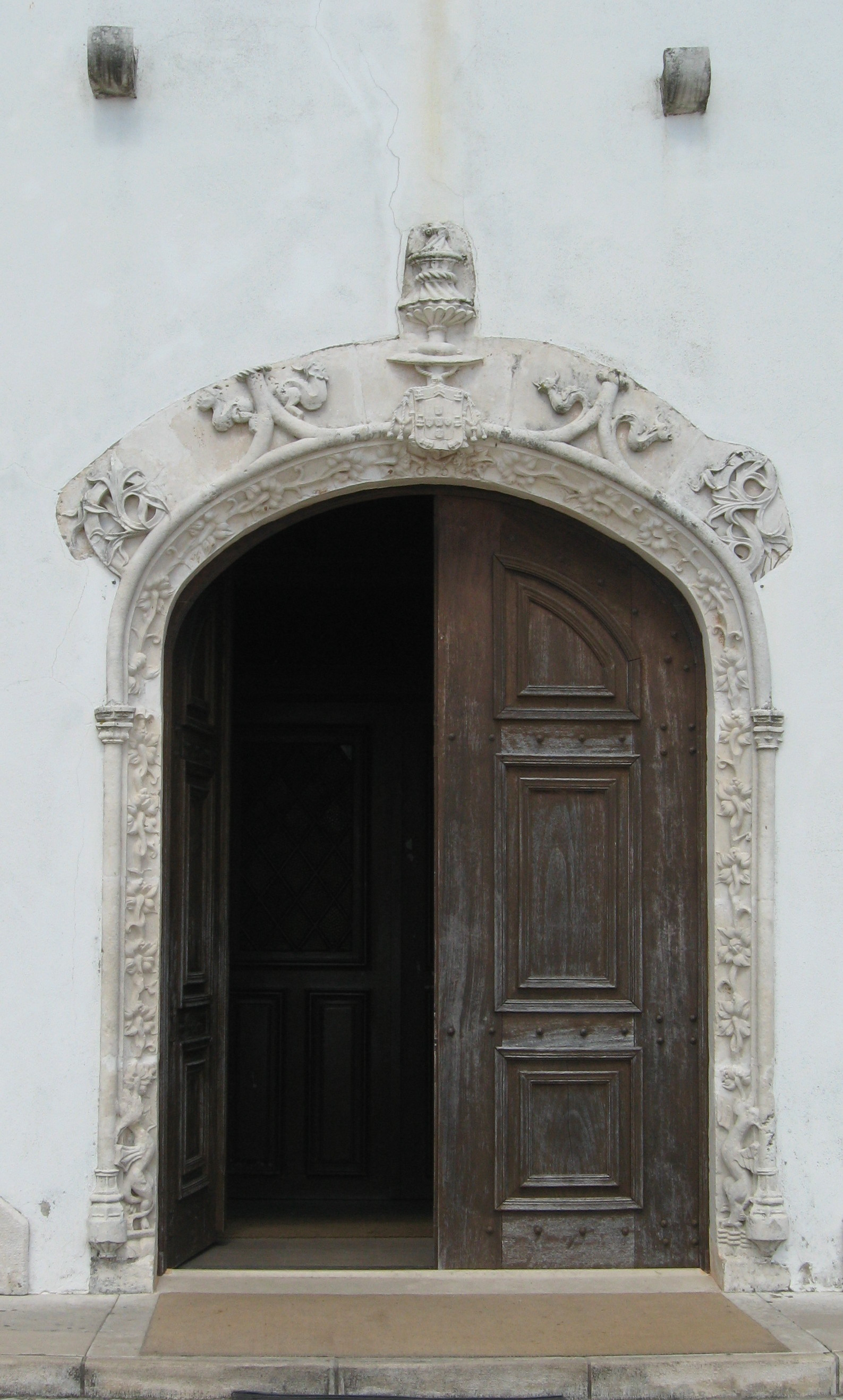 Alcobaça, Portugal, Mosteiro de Alcobaça, Coutos de Alcobaça, former county of the Abbey, Turquel, old city of the Coutos, manueline door of the Church Maria da Conceição, 16th century